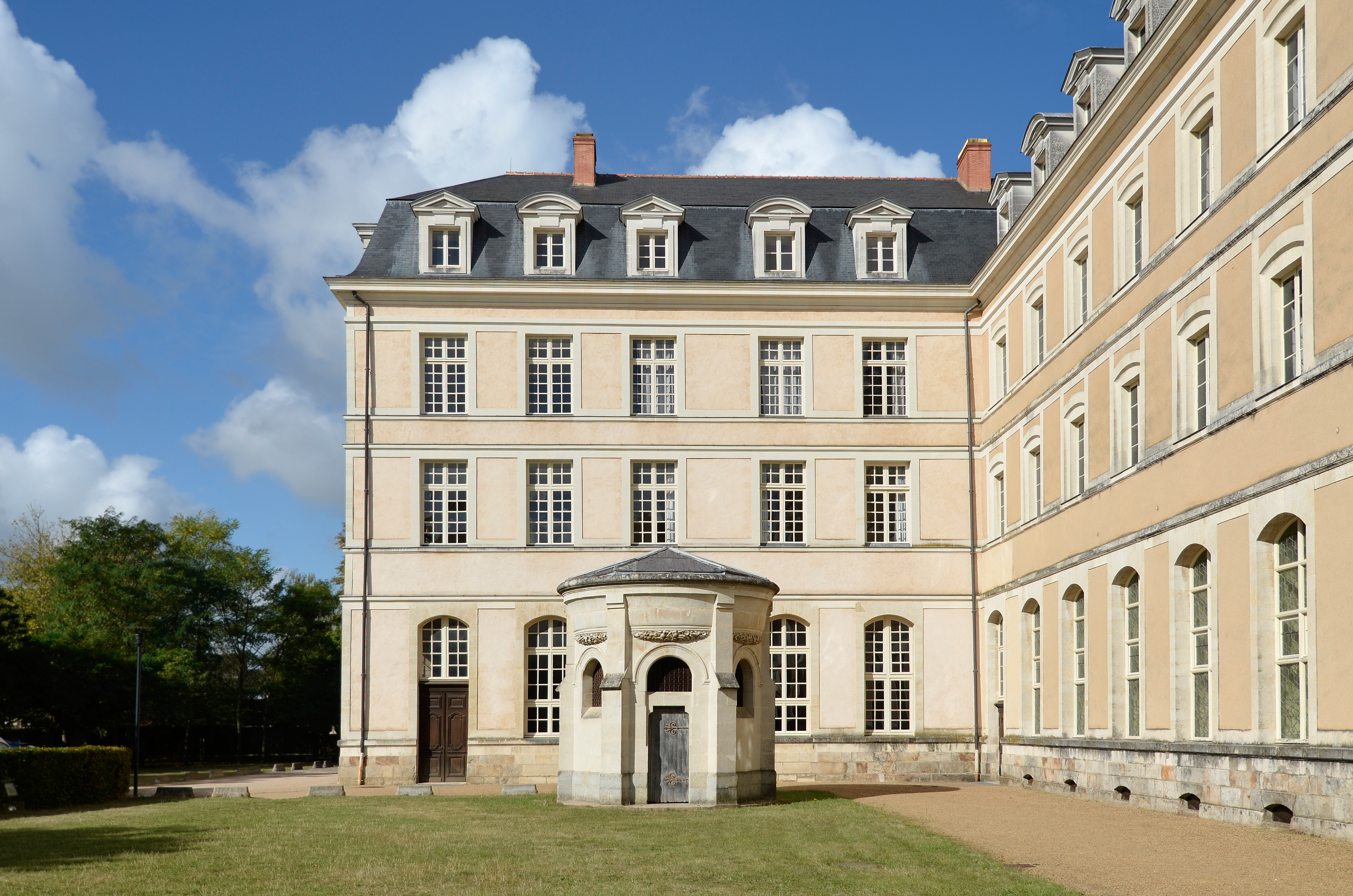 Abbey of Saint-Vincent, now Bellevue high school - Le Mans, Sarthe, France This building is en partie classé, en partie inscrit au titre des Monuments Historiques. .